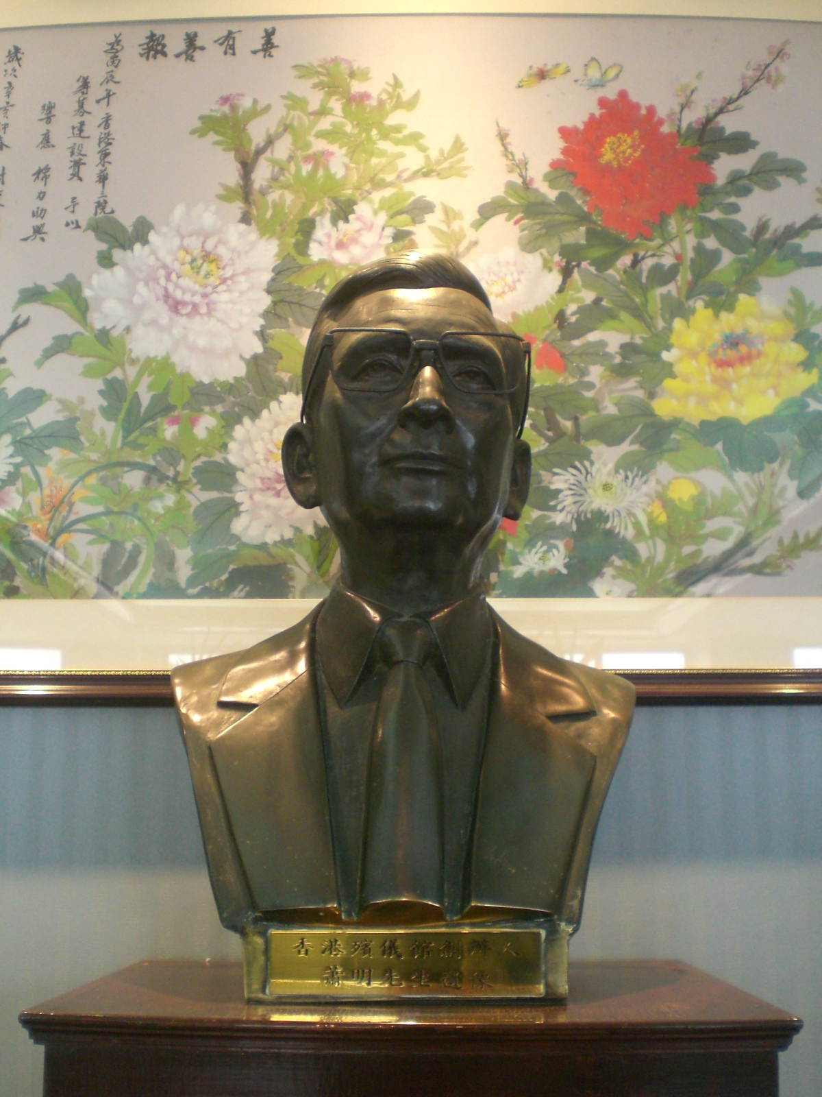 北角香港殯儀館創辦人蕭明